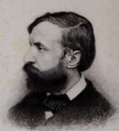 Portrait of Charles de Groux